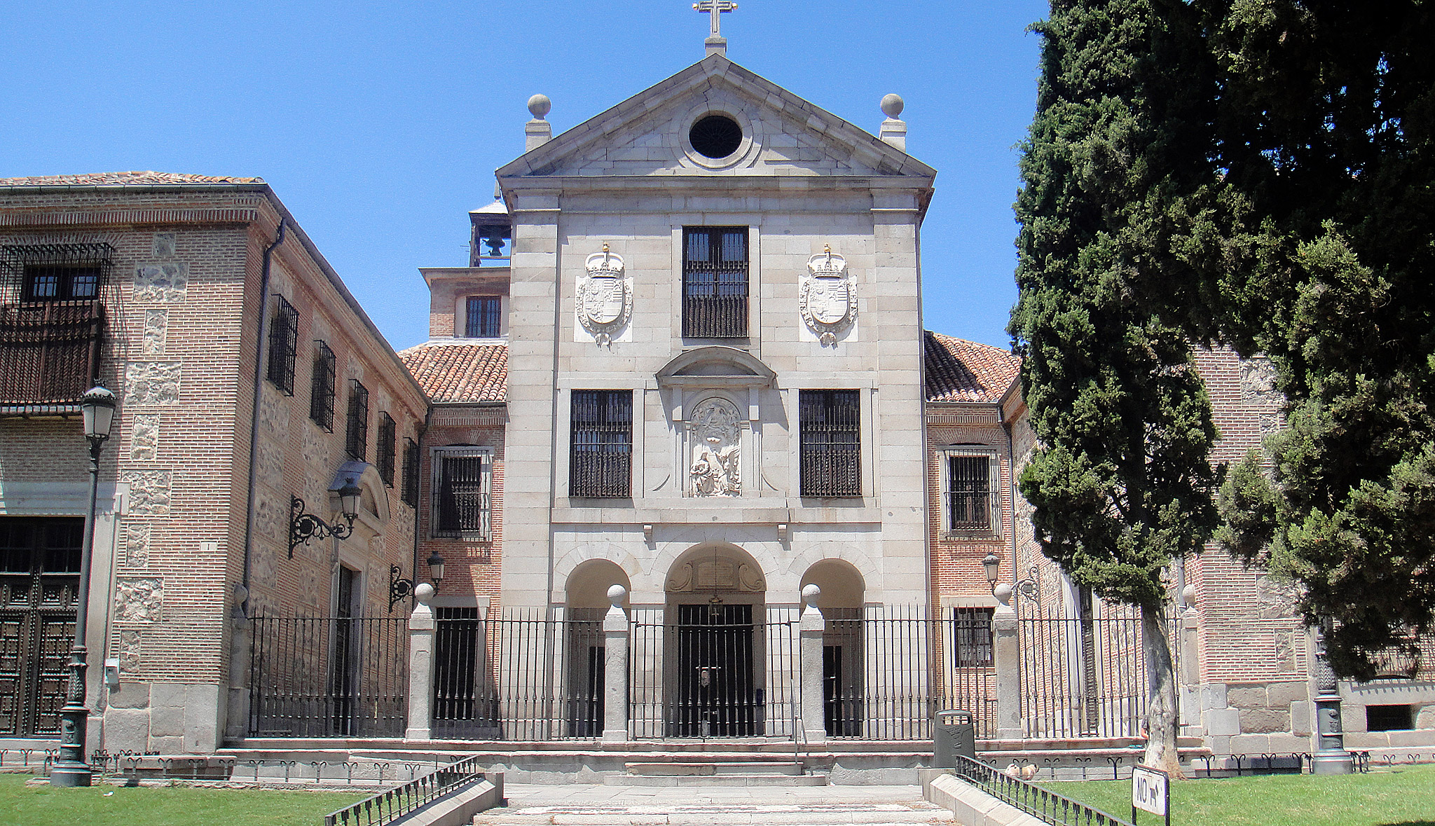 Real Monasterio de la Encarnación, Madrid